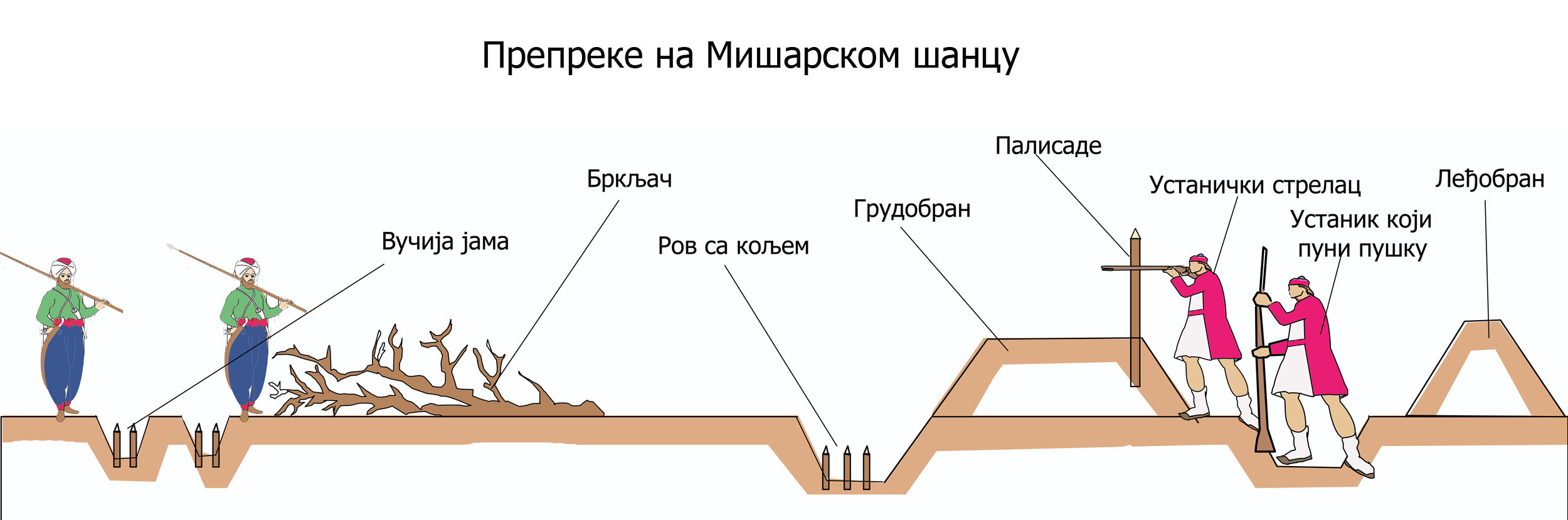 The diagram of Mišar battle redoubt consturction